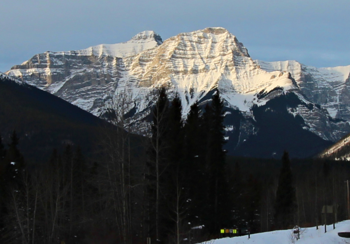 Mount Bogart from Kananaskis river at the village junction